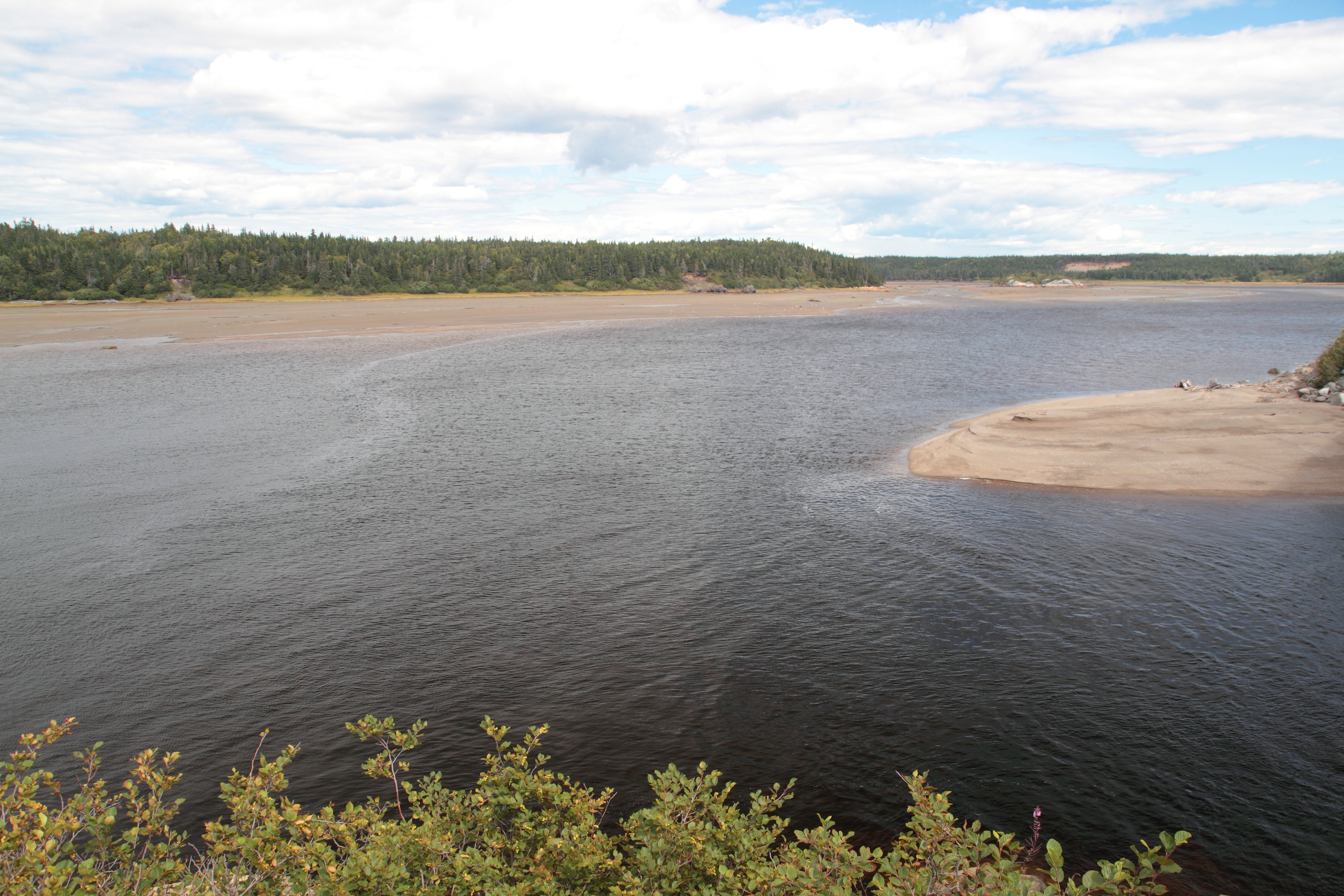 Sheldrake river, Rivière-au-Tonnerre, Quebec, Canada